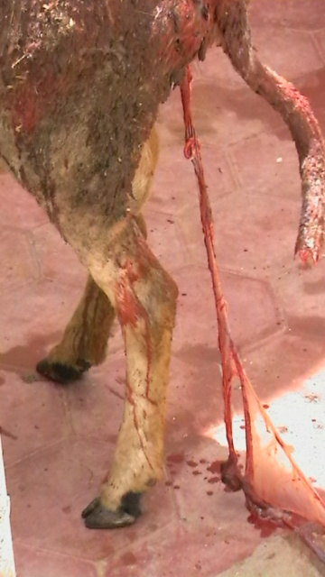 afterbirth of a ewe just after lambing (normal) Walon: Netieure (normåle) d' ene berbis djusse après l' agnlaedje